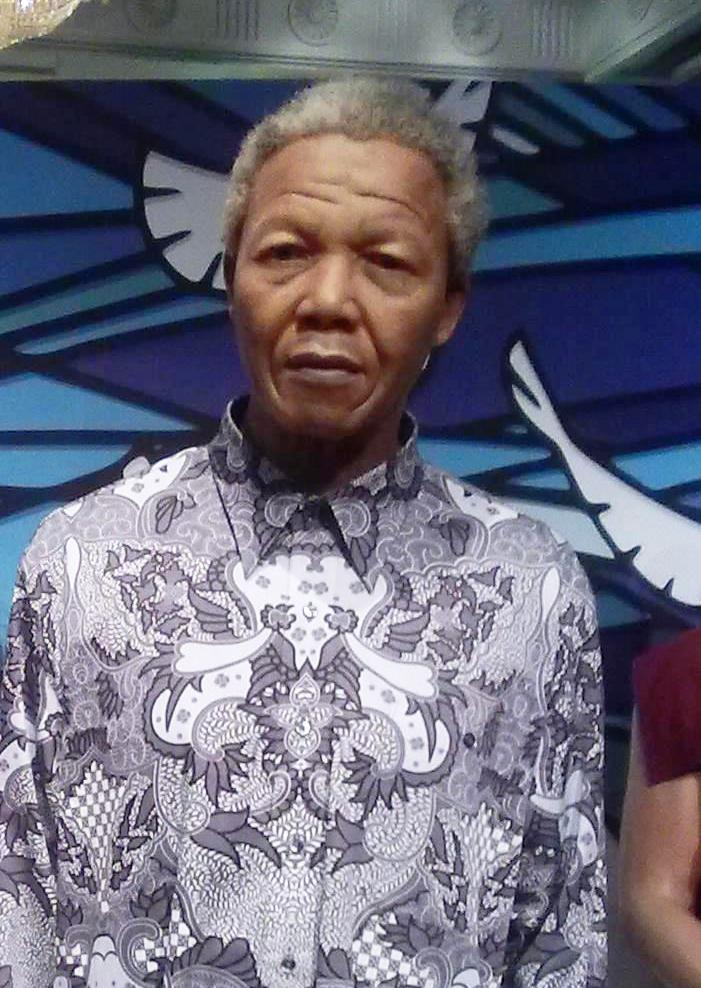 Nelson Mandela Wax Statue in Madame Tussauds London